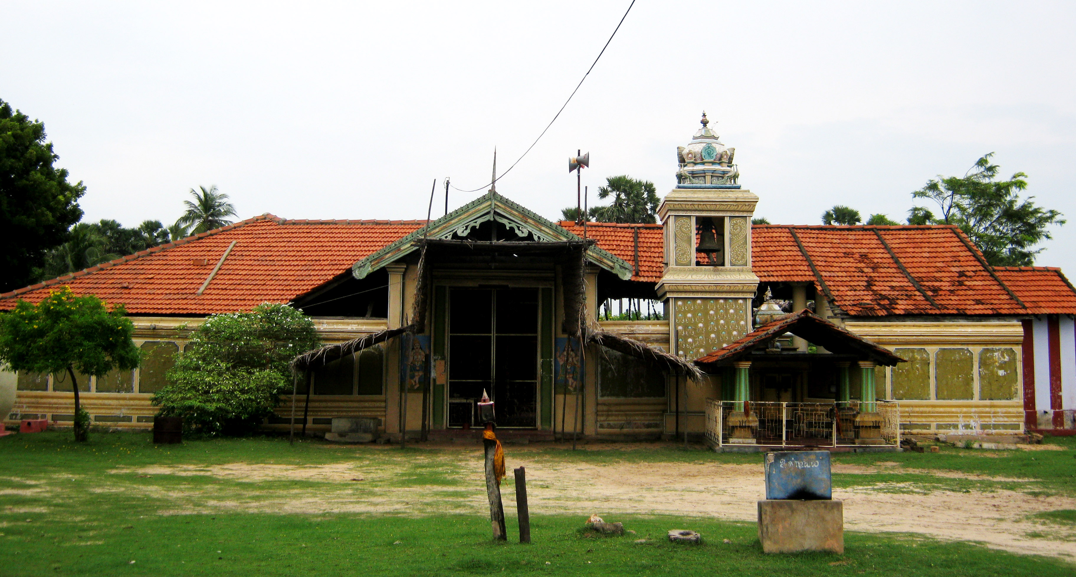 Velanai Vangalavadi Murugan Kovil side view